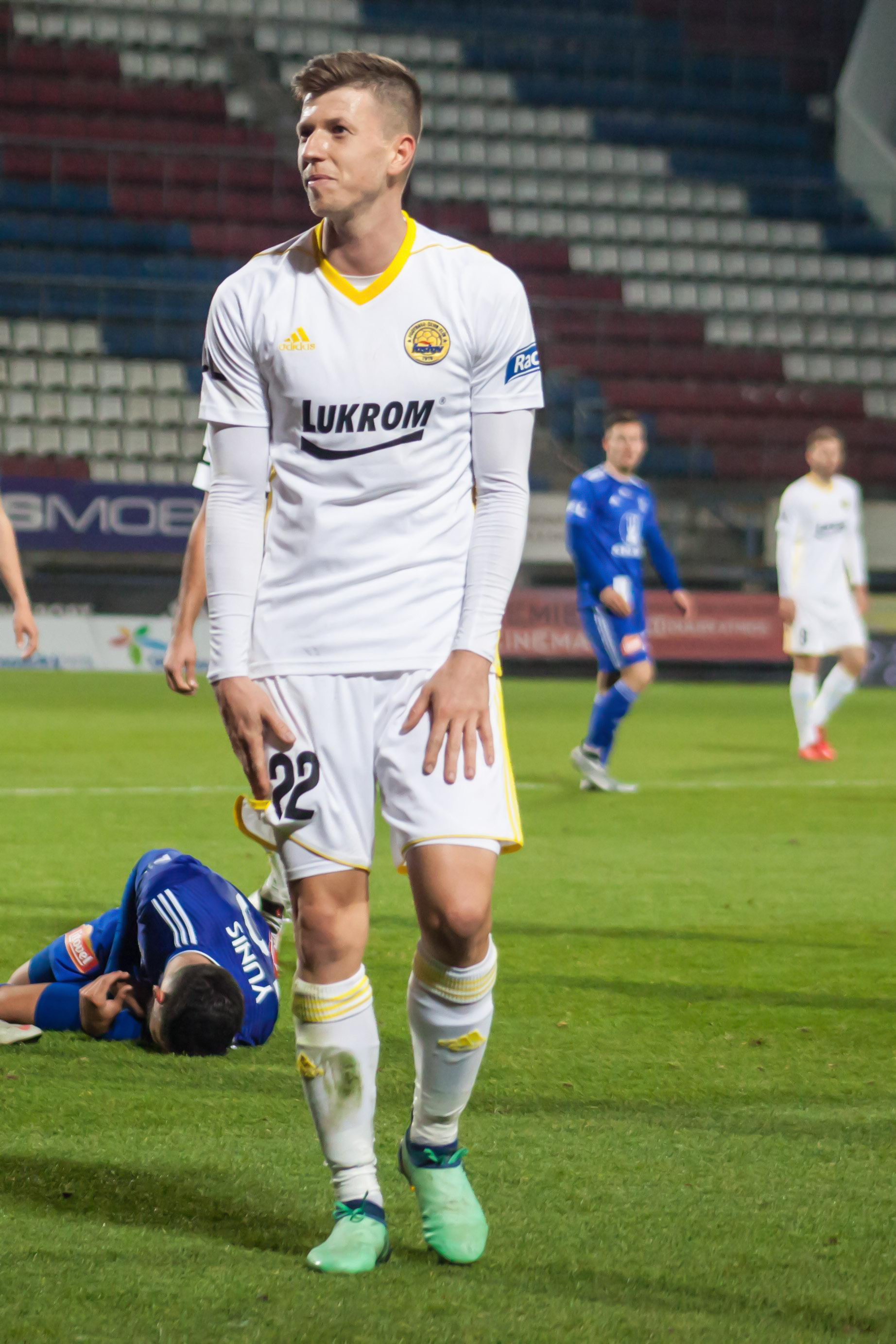 Lukáš Bartošák At Czech cup (MOL Cup) match SK Sigma Olomouc-FC Fastav Zlín played on 15 November 2018